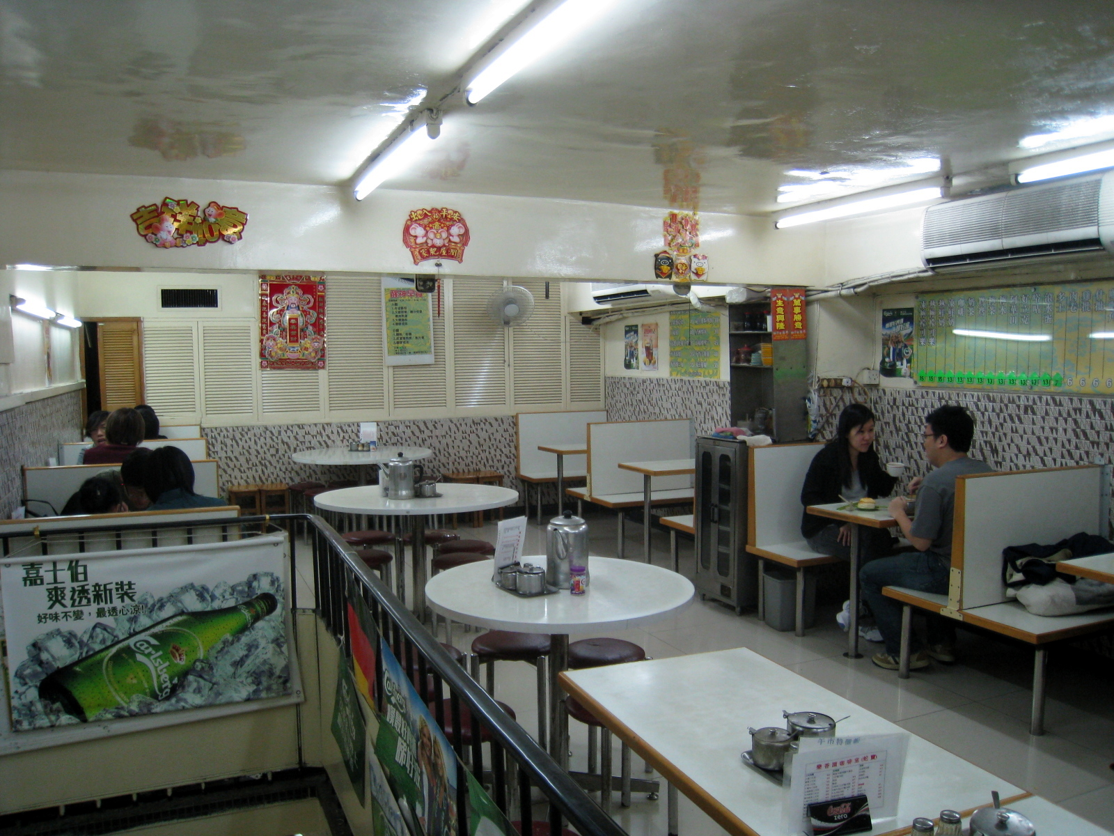 Lok Heung Yuen Coffee Shop Interior 樂香園咖啡室